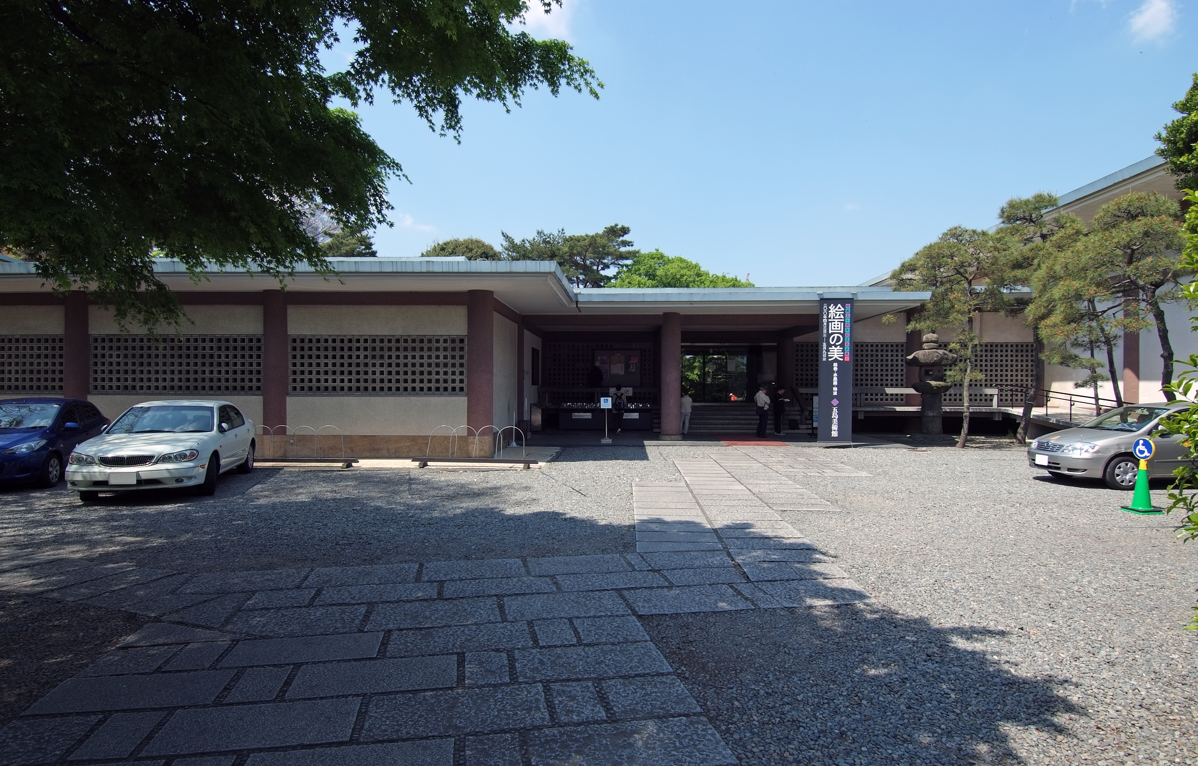 Gotoh Museum, at Setagaya-ku Tokyo Japan, designed by Isoya Yoshida in 1960.